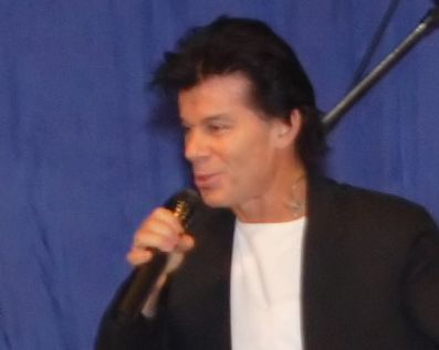 photo of russian singer Oleg Gazmanov